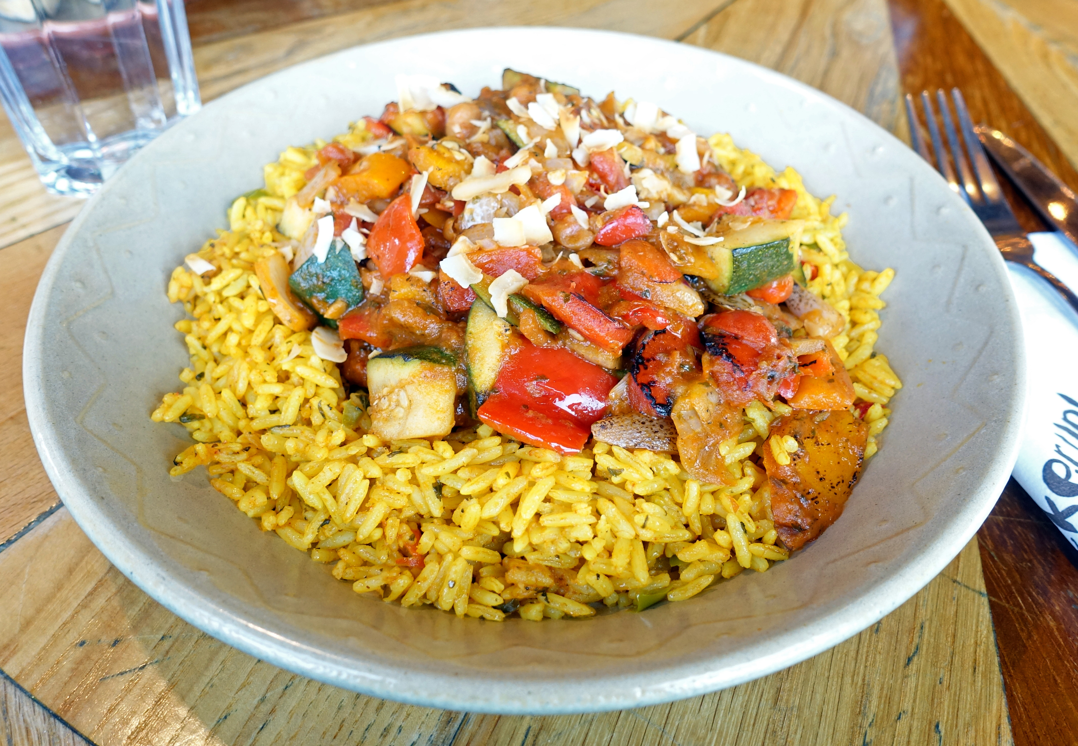 Rice and vegetables in Nando's restaurant, Newport.